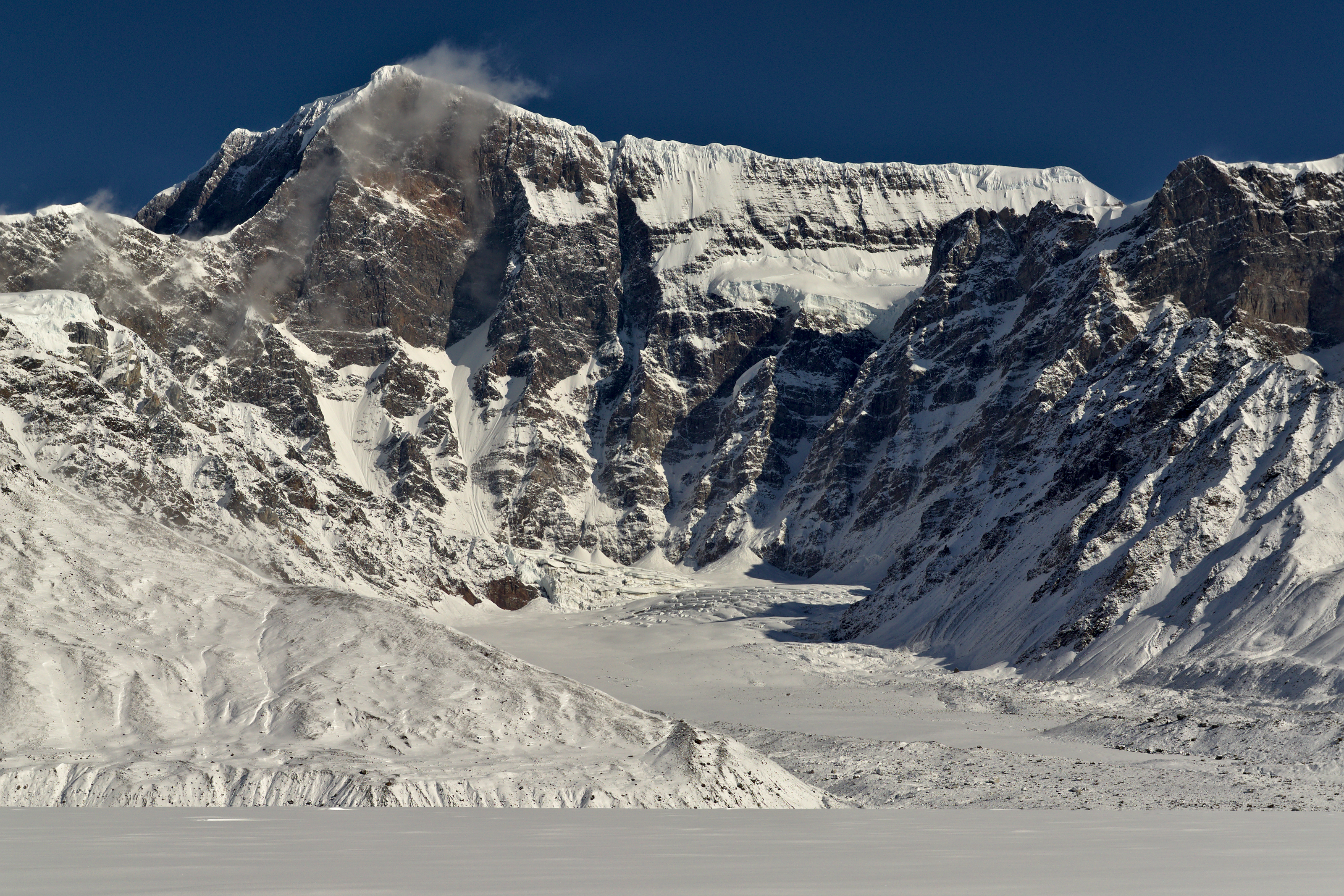 Mt Shand in the Hayes Range region of the Alaska Range.